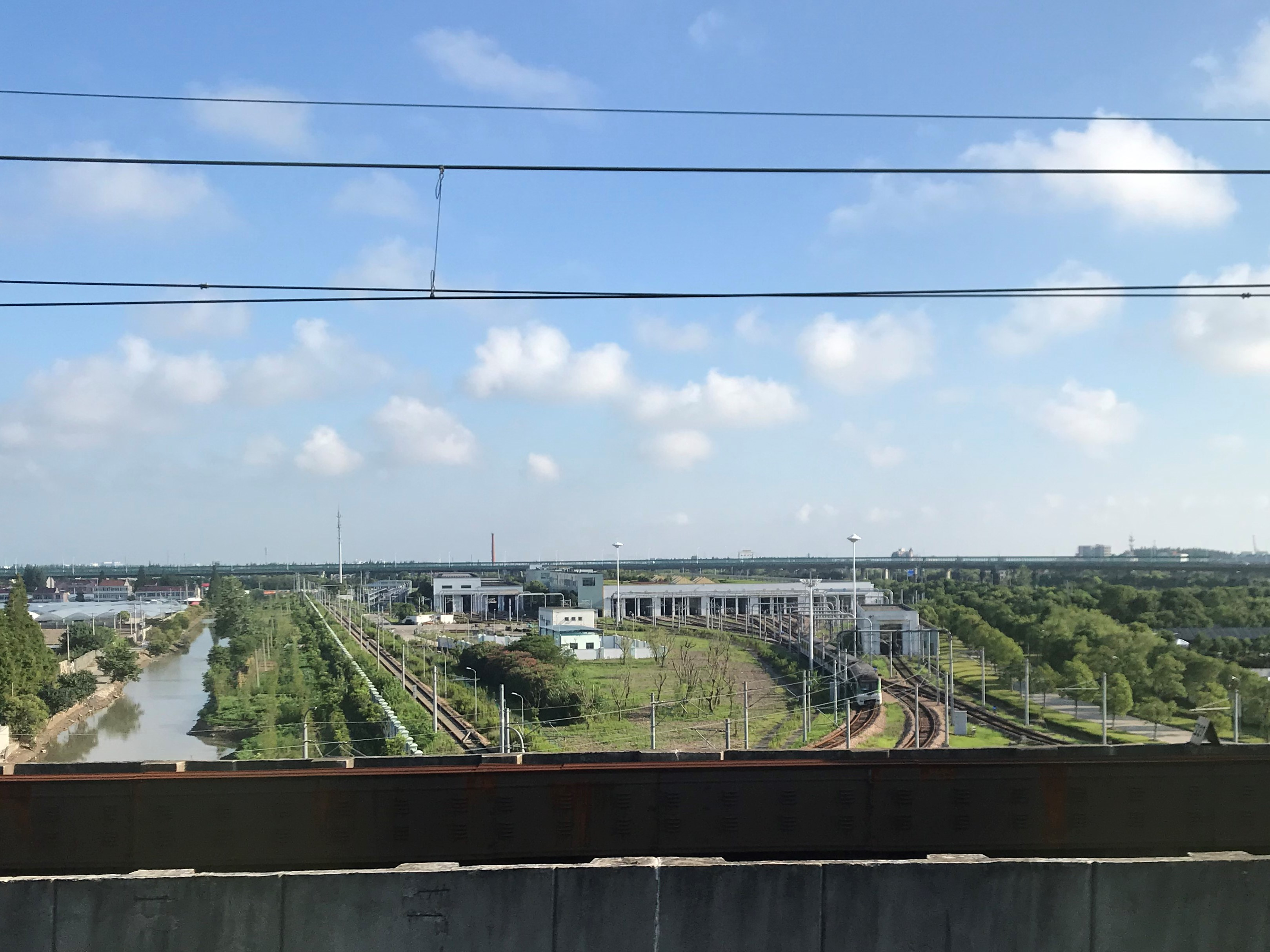 201908 Chuansha Depot of Shanghai Metro